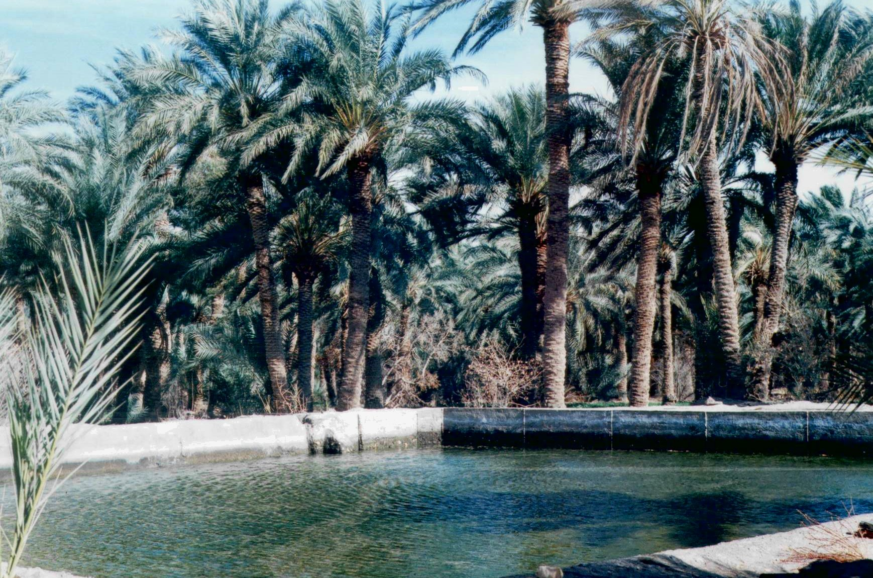 pool of mohammadabade kore gaz, south of dashte kavir desert in Iran.